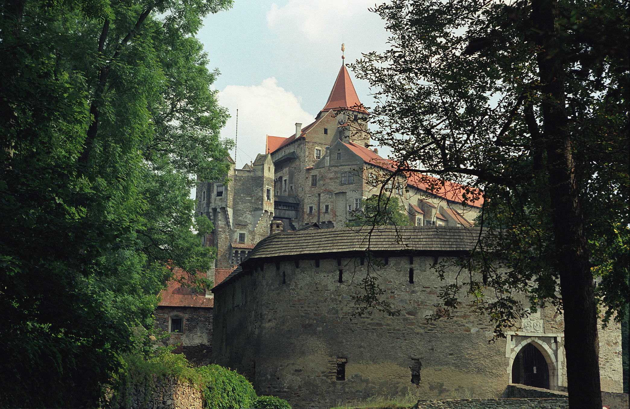 Pernstejn Castle